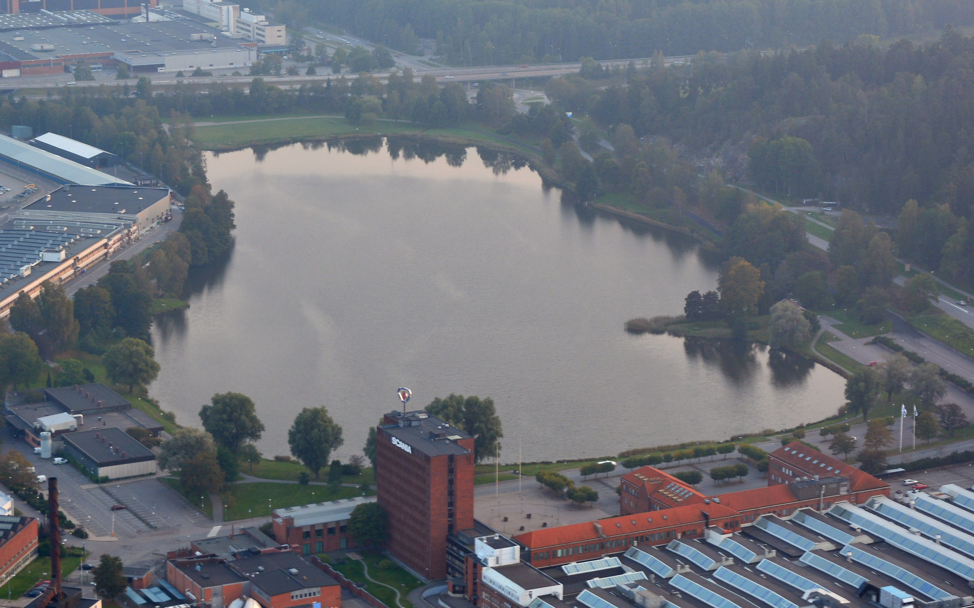 Saltskogsfjärden in Södertälje, Sweden.